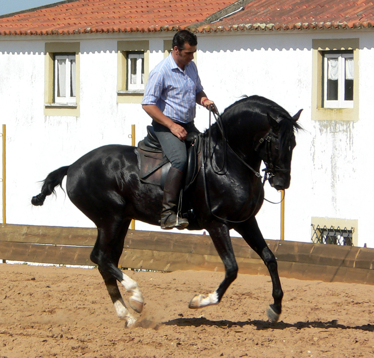 Black lusitano